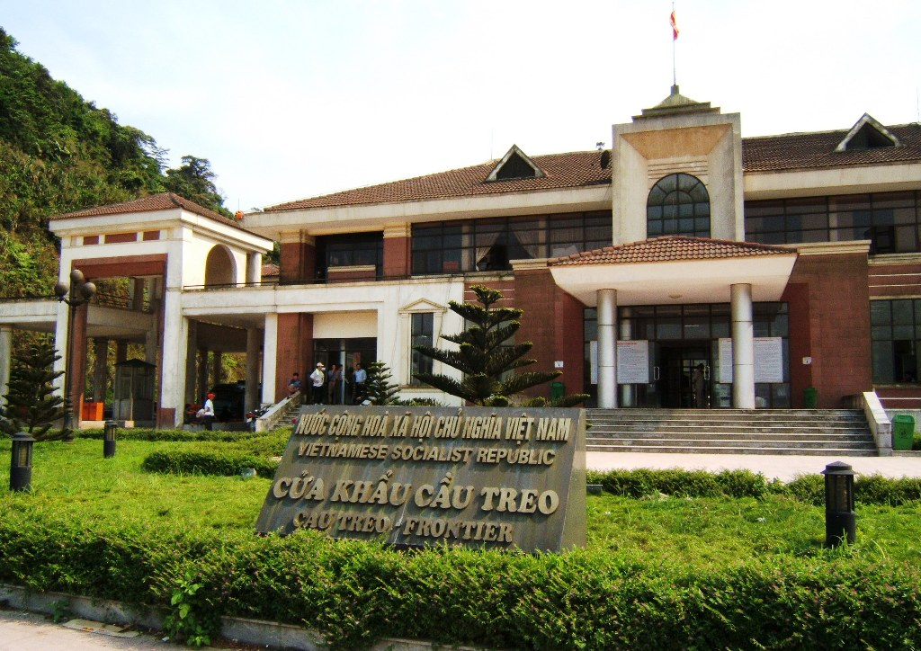 Cầu Treo border crossing, Ha Tinh province, Vietnam